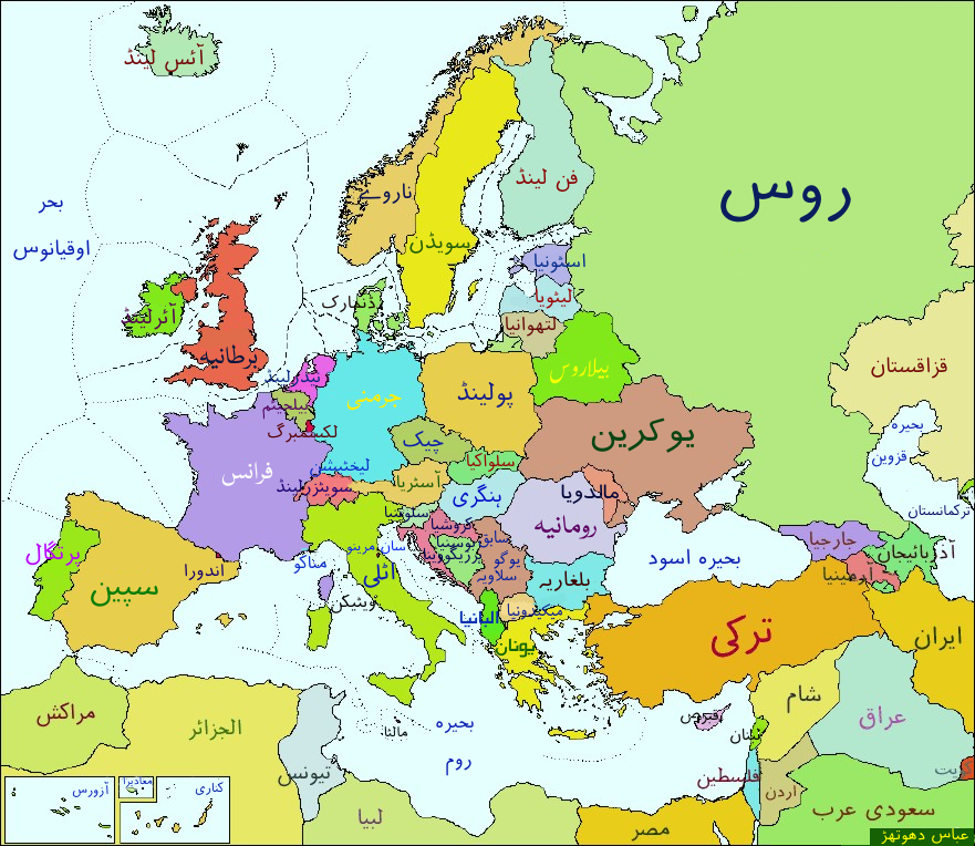 Political Map of Europe in Punjabi.